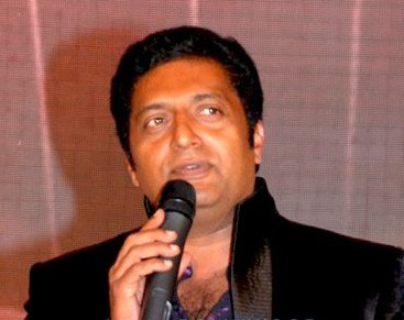 Actor Prakash Raj during an event